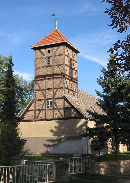 Stonechurch Neuendorf, built probably in 15th century. The village Neuendorf is a part of the town Brück in the district Potsdam Mittelmark, state Brandenburg, Germany. The village is situated on the north border of the „Baruther Urstromtal“ (glacial valley) subplateau Zauche.